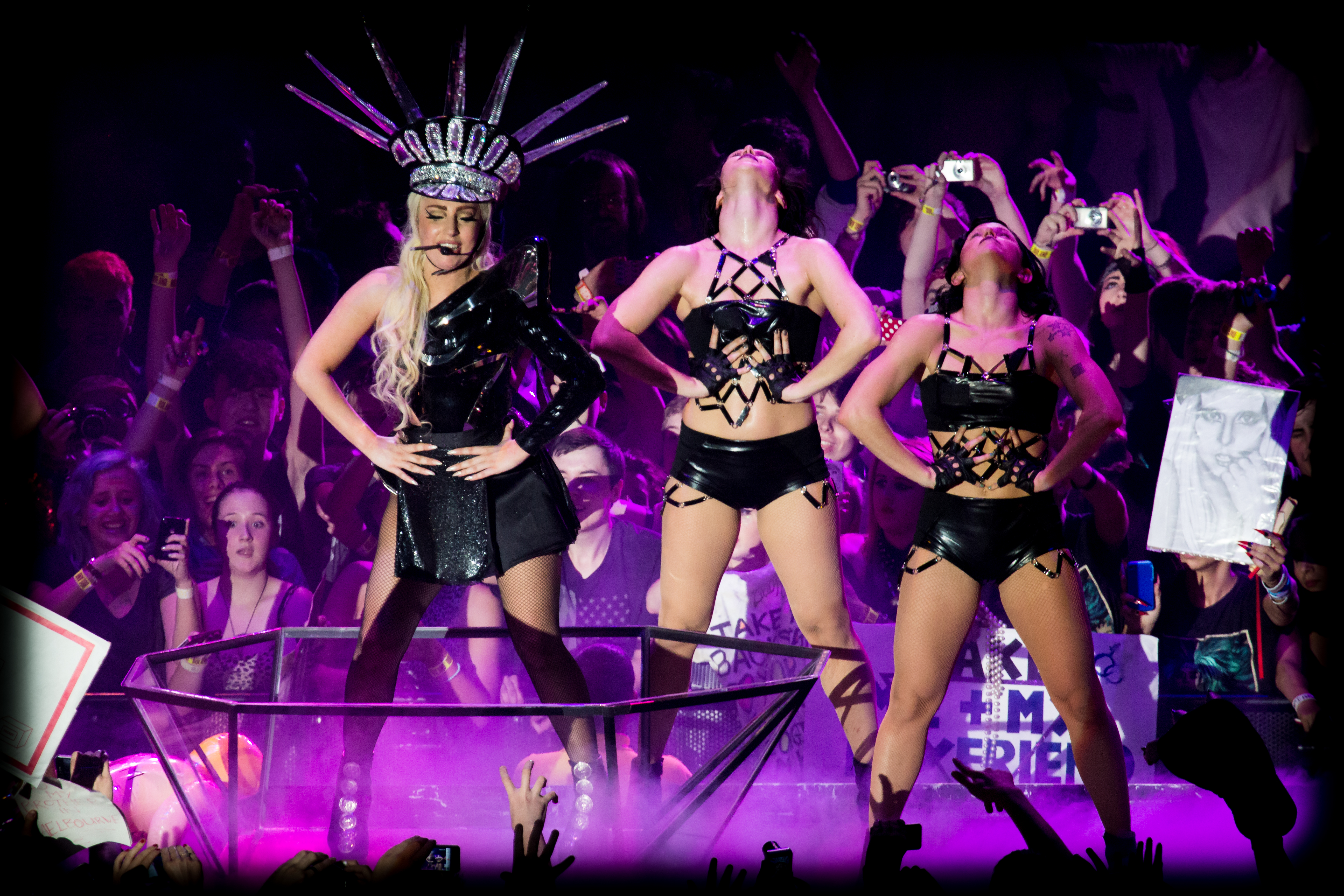 Lady Gaga performing "LoveGame" on The Born This Way Ball Tour in Manchester, UK.